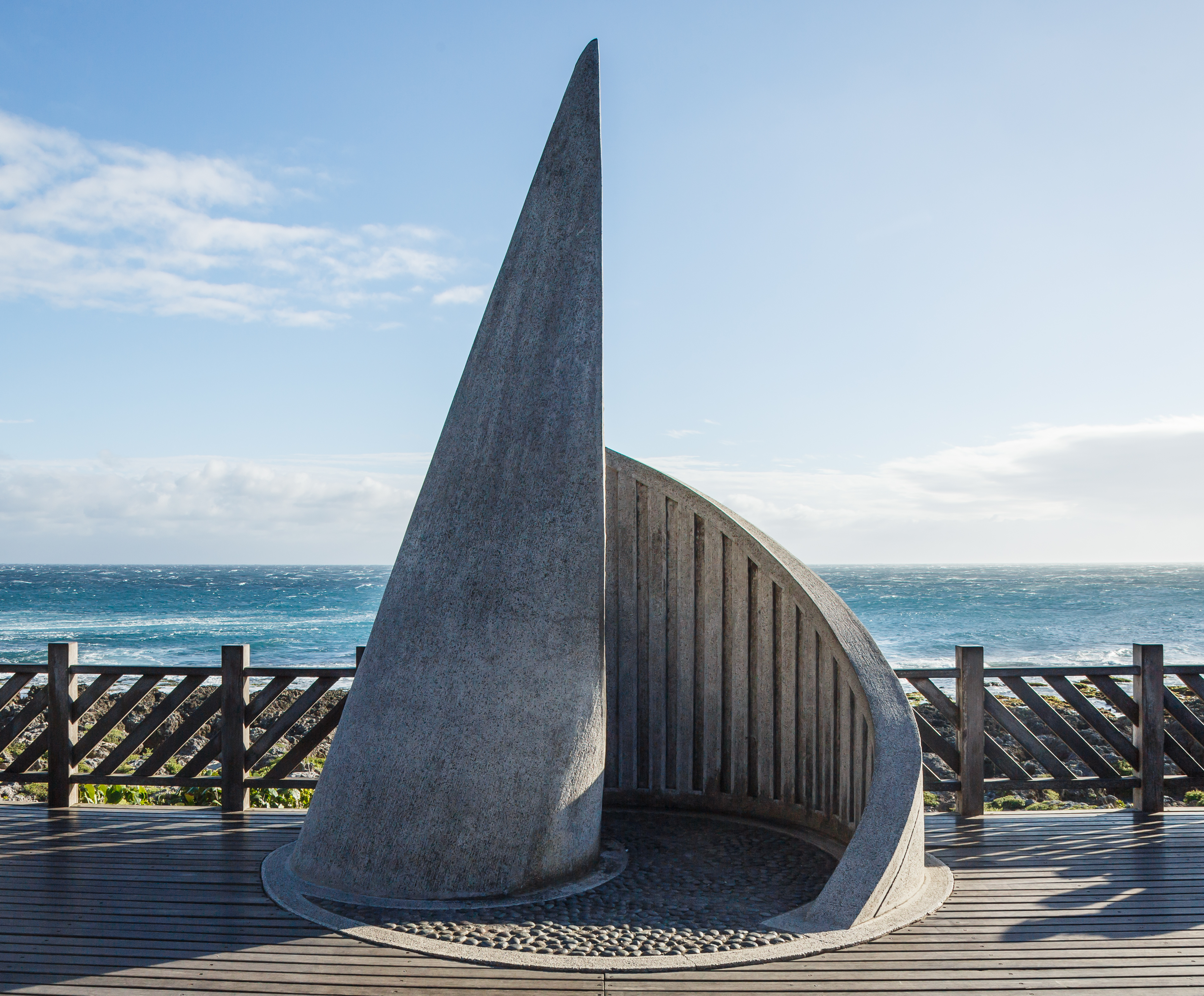 Hengchun Township, Taiwan: Marker Stone next to the southernmost point of Taiwan